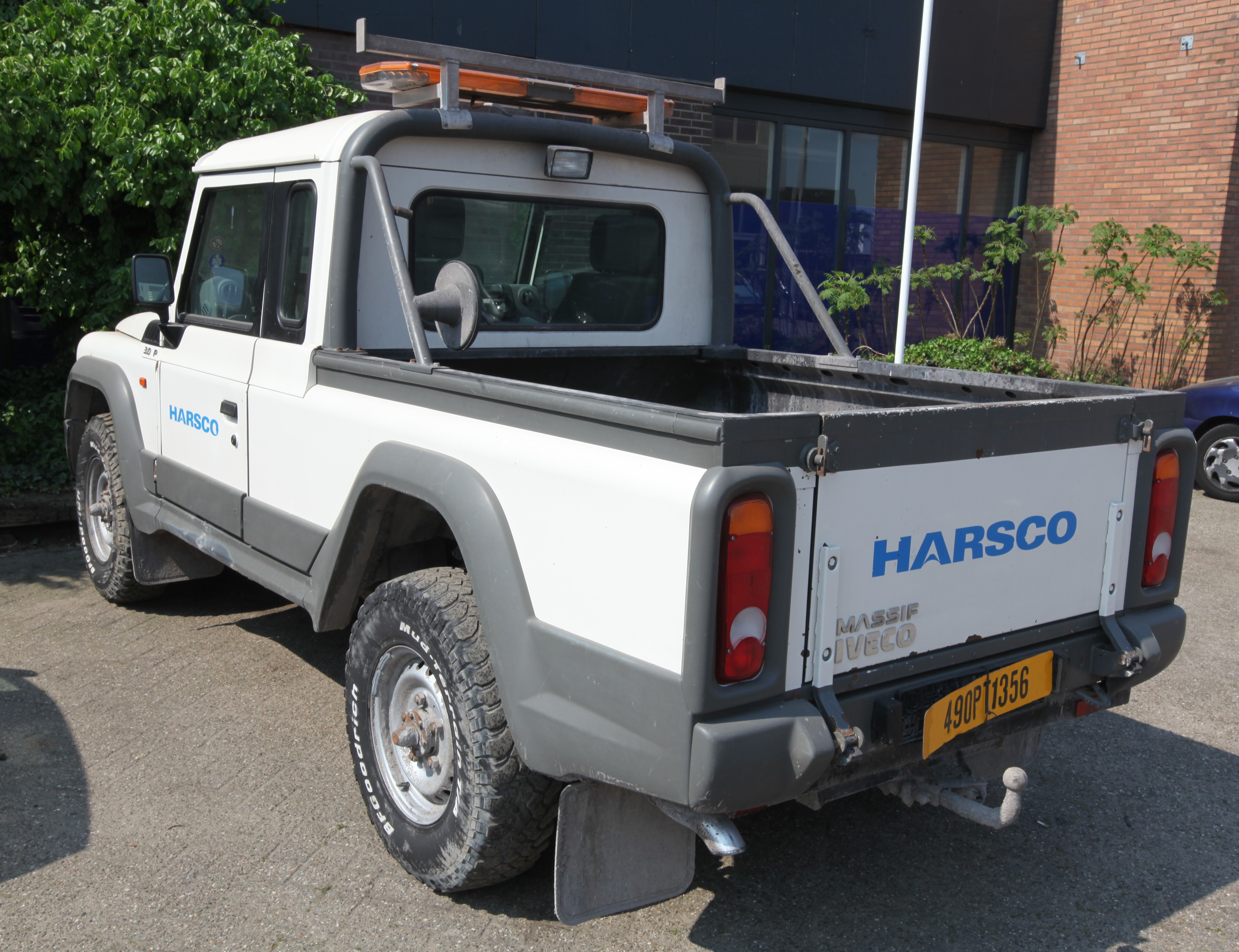 Iveco Massif 4 x 4